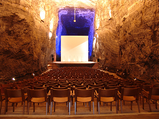 The Auditorium of the Salt Cathedral (Zipaquirá, Colombia) / El Auditorio de la Catedral de Sal (Zipaquirá, Colombia).